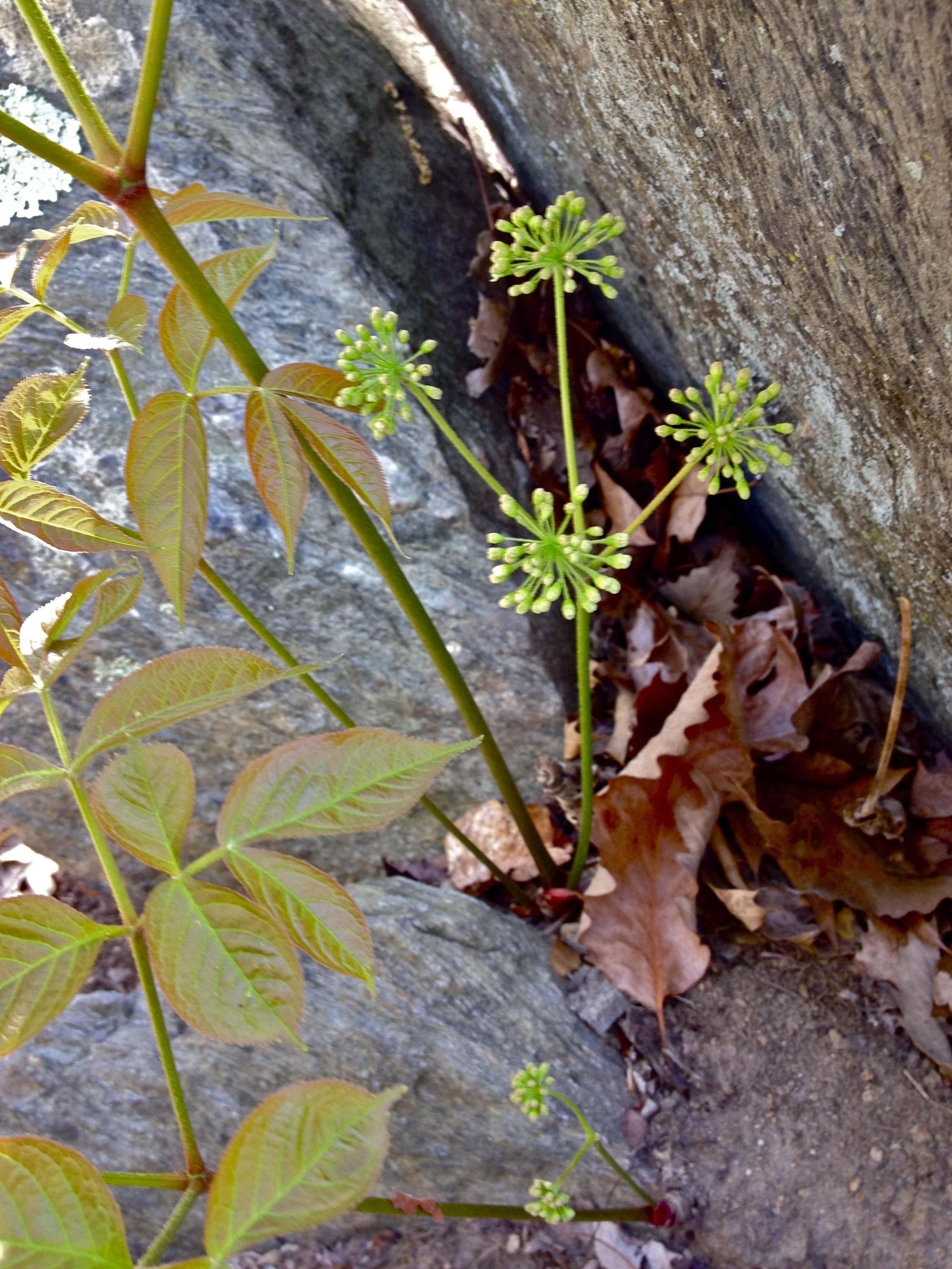 Photo of Aralia nudicaulis shortly before flowering. This is a native plant growing wild in Scotts Run Nature Preserve, Fairfax county Virginia, USA. This species is a member of the Araliaceae family.